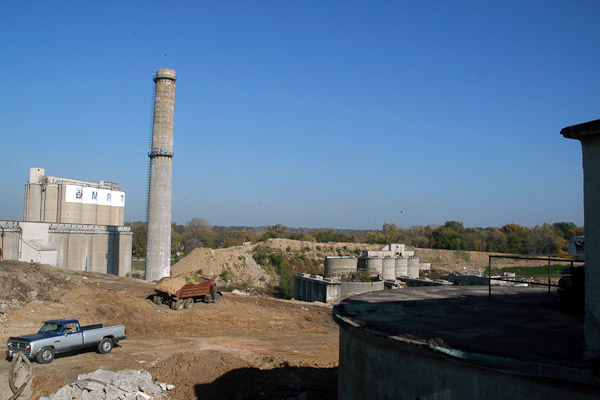 Bob Cassilly's Cementland in progress with mounds of dirt and old cement factory ruins.